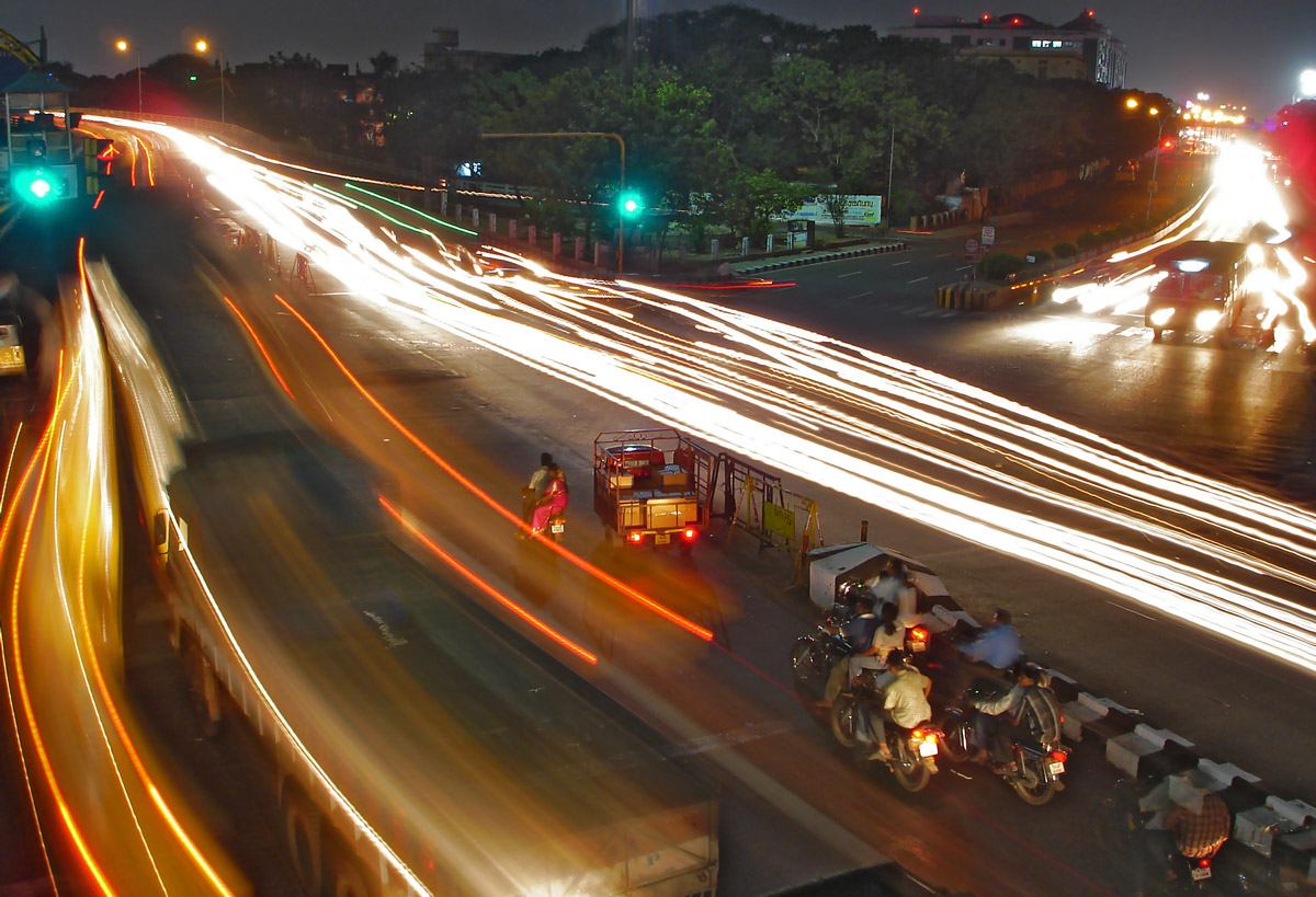 Traffic outside Chennai Fort railway station at night.